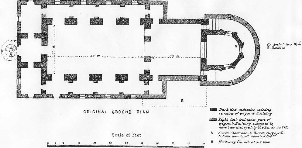 Church of England parish church of All Saints, Brixworth, Northamptonshire: plan of the church as it was originally built in the 7th century AD.